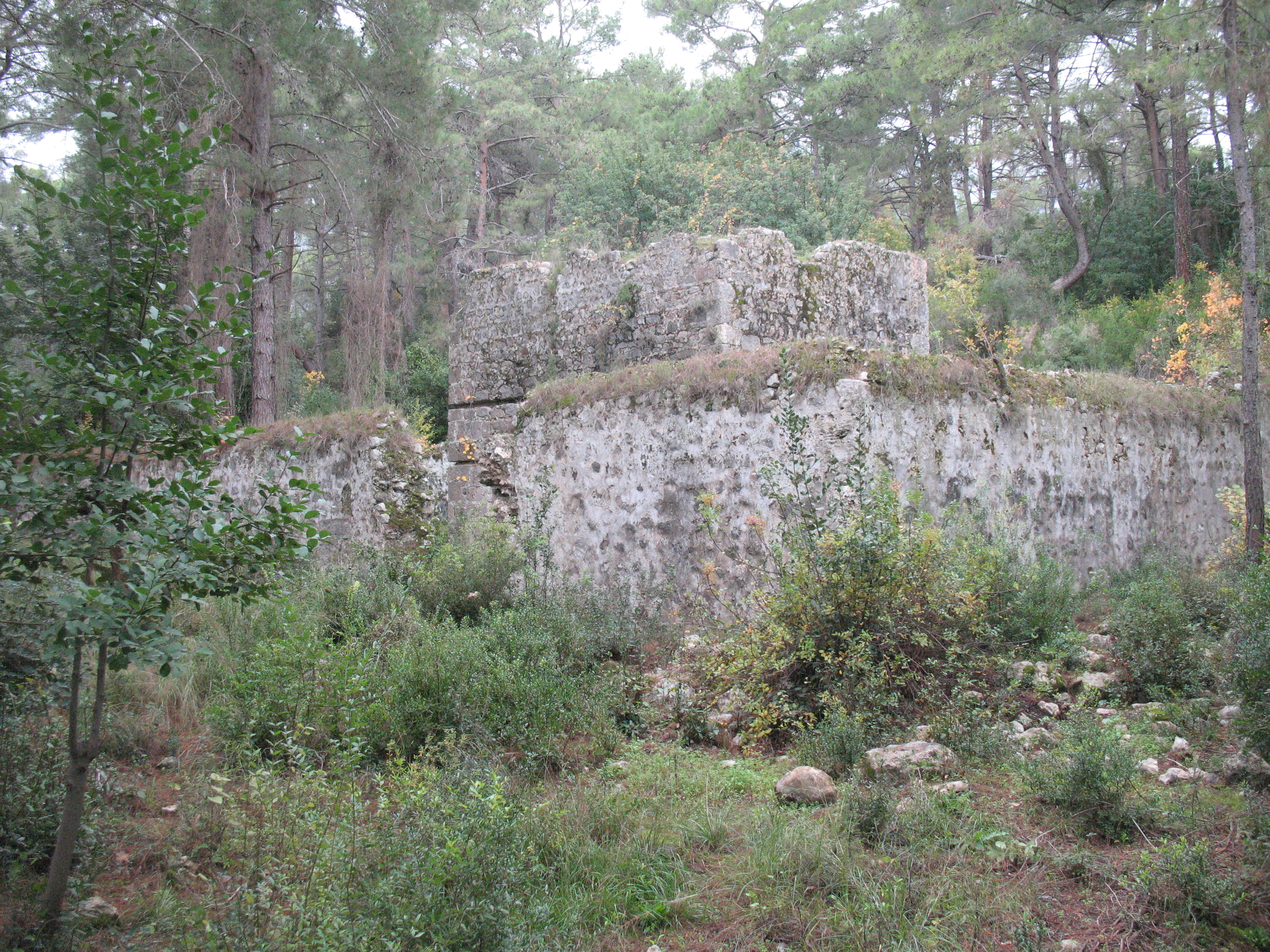 seljuk building in Kemer, 13th century (?)